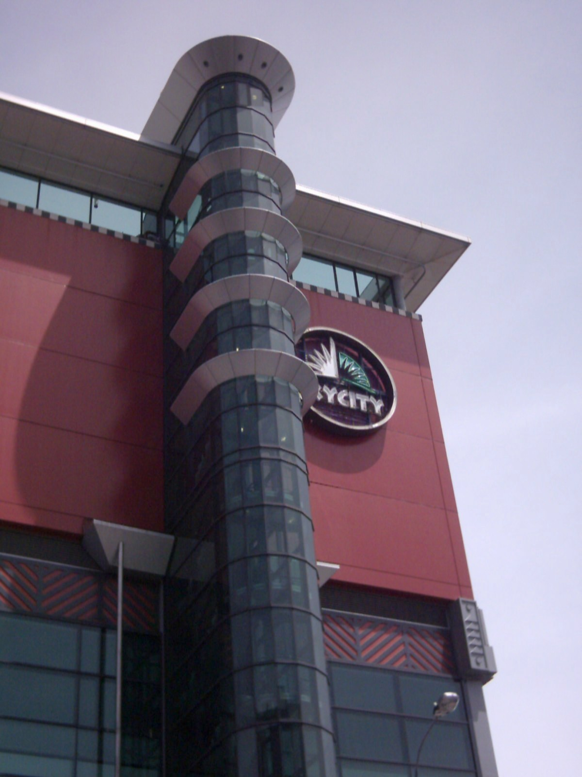 The building and logo of SKYCITY Auckland, Auckland City, New Zealand, as seen looking south-westward.